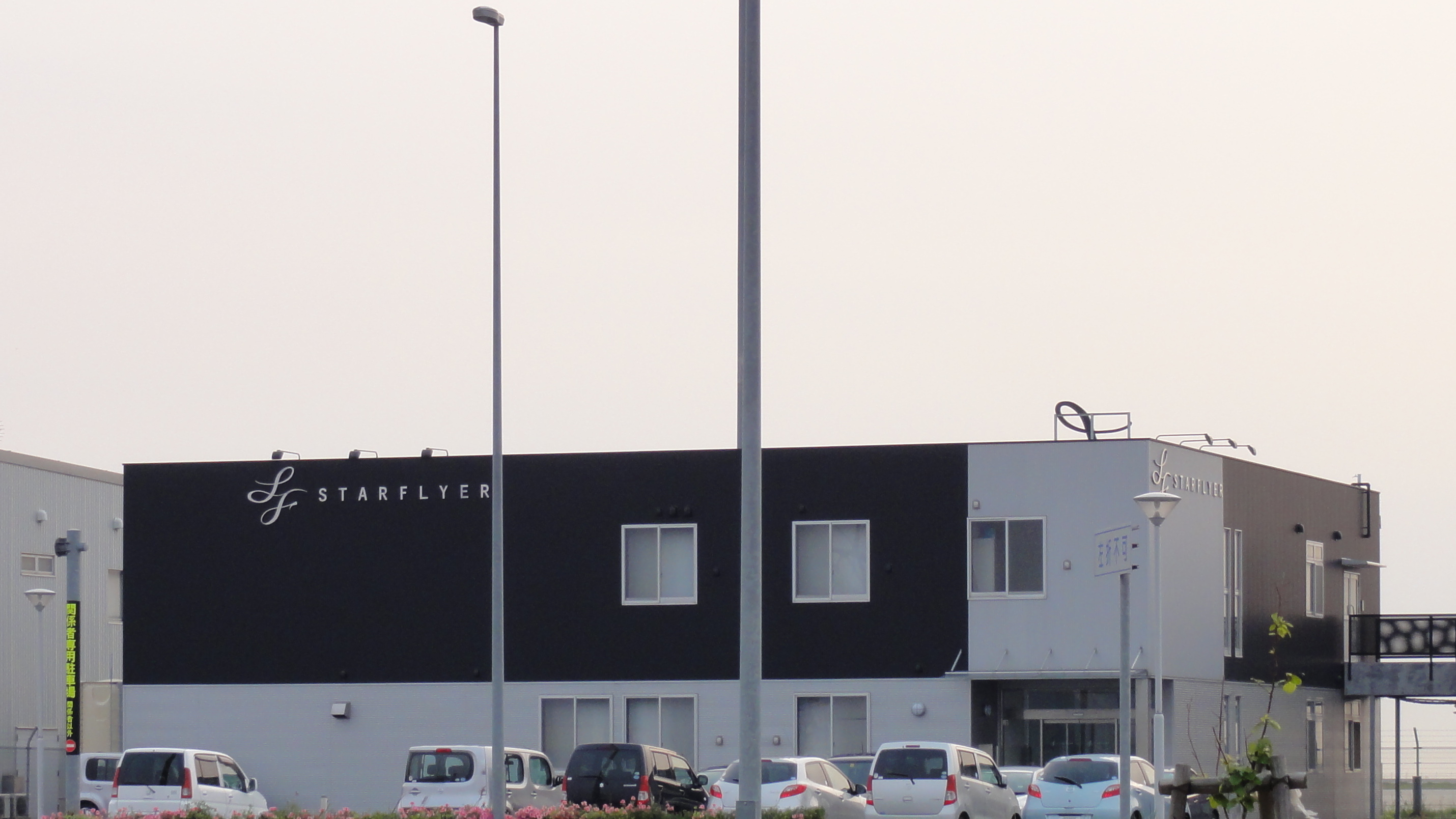 Headquarters of Star Flyer,Fukuoka Pref., Japan